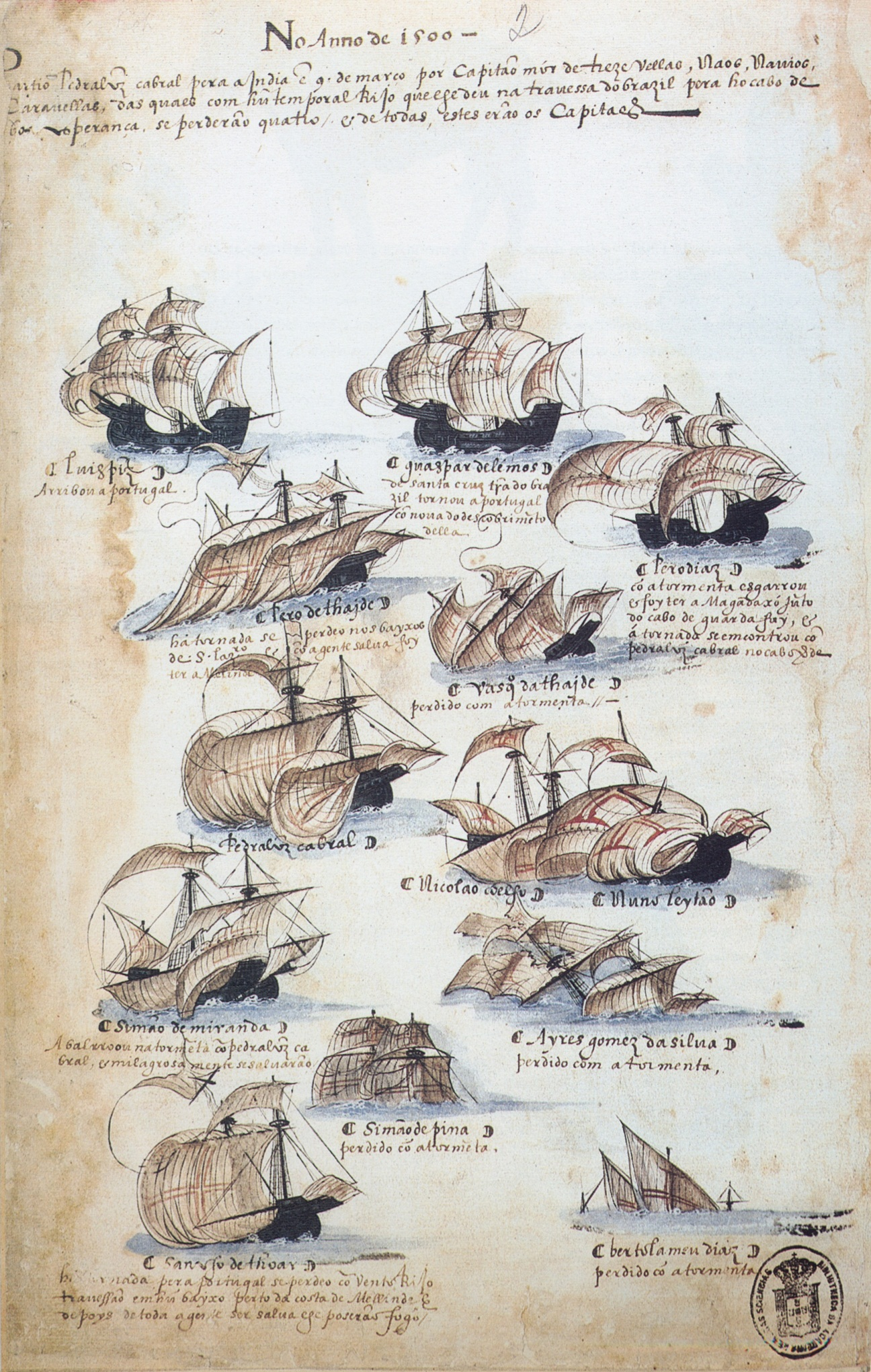 The fleet commanded by Pedro Álvares Cabral, the navigator who discovered Brazil in 1500.